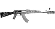 Figure 54 of the US Army Operator's Manual for the AK-47 Assault Rifle.[1]. The AK-47 can mount a (rarely used) cup-type grenade-launcher that fires standard Soviet RGD-5 hand-grenades. The soup-can shaped launcher is screwed onto to AK-47’s muzzle. To fire… First, insert a standard RGD-5 hand-grenade into the launcher and then remove the safety pin… Second, insert a special blank cartridge into the rifles chamber… Third, place the butt-stock of the rifle on the ground and fire from this position. The maximum effective range is approximately 150 meters.